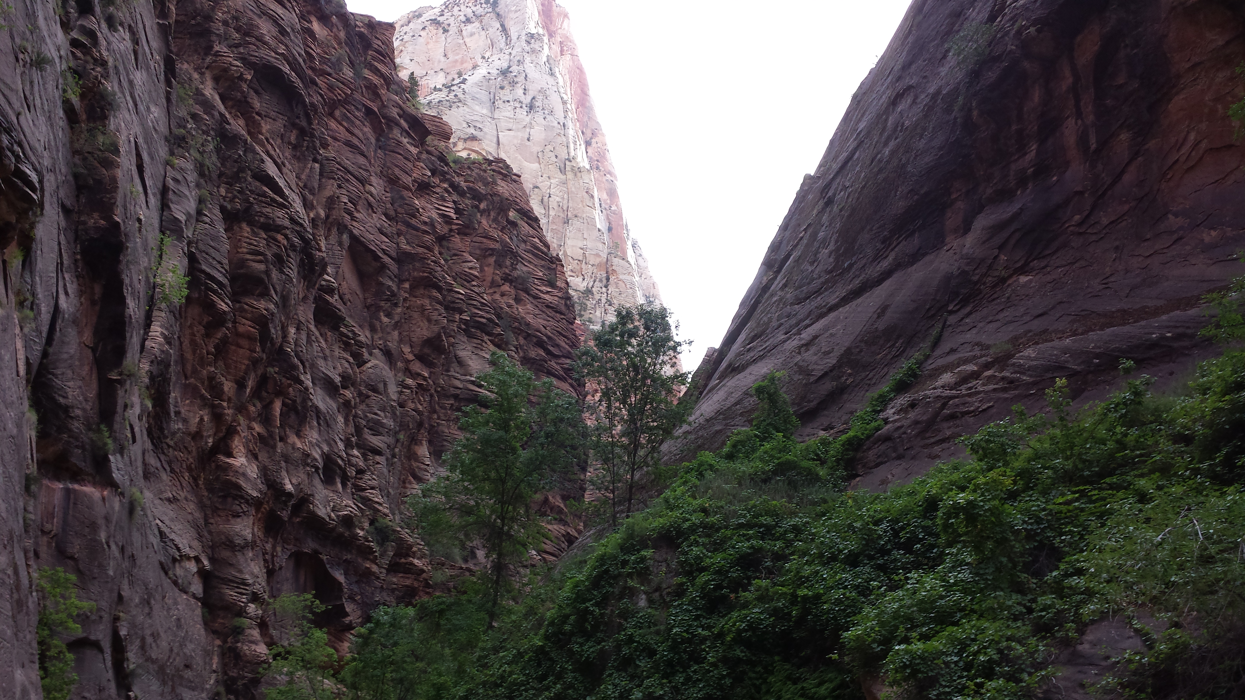 Zion Canyon viewed from the Narrows